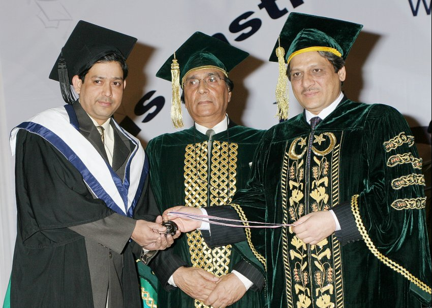 Governor Sindh Dr. Ishrat Ul Ebad Khan presenting gold medal to meritorious student of Indus University